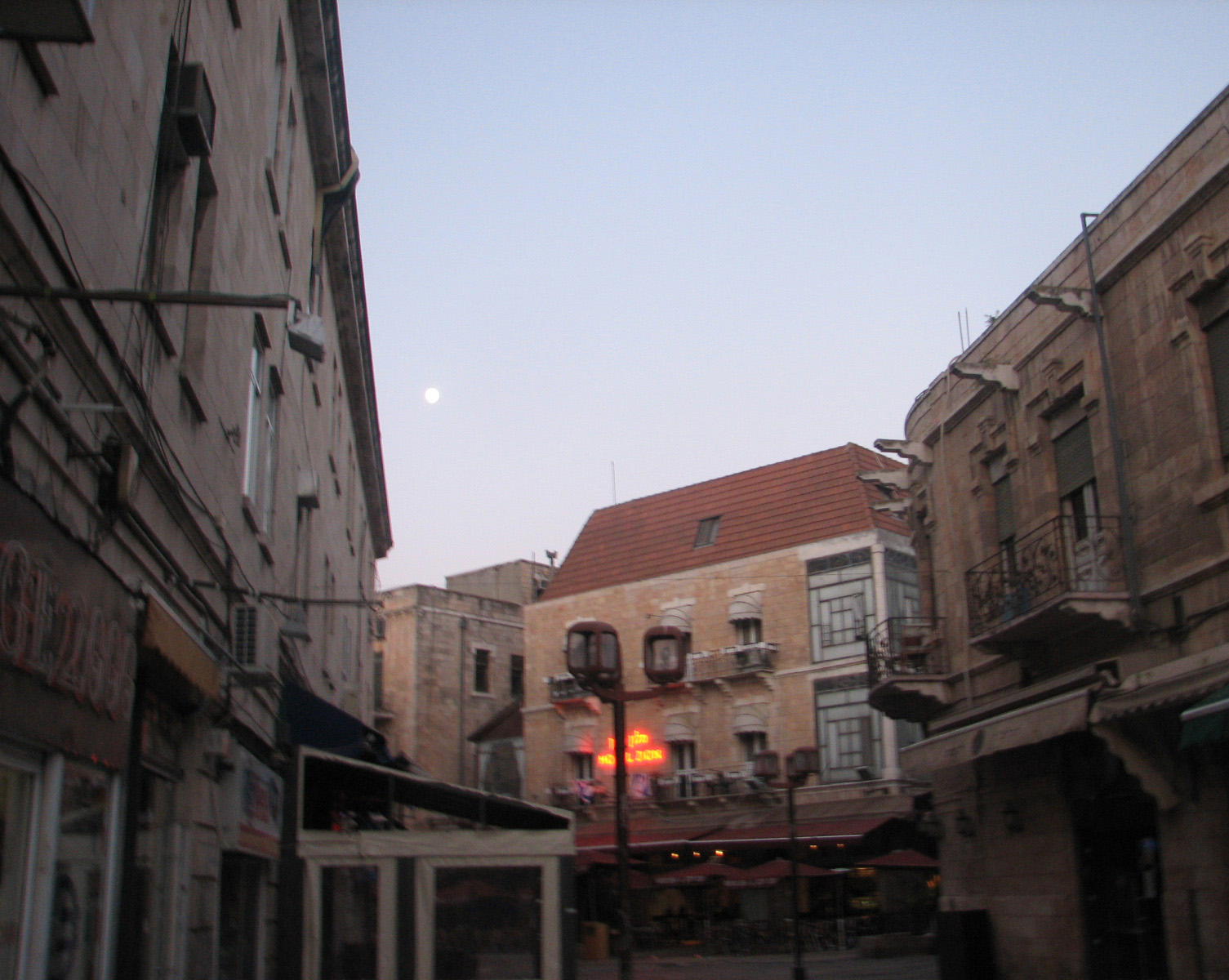 Urban scene of West Jerusalem's "Triangle" district at dusk.